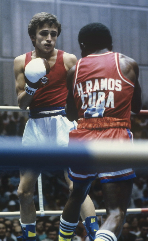 “Boxers Shamil Sabirov and Ipolito Ramoz”. Soviet boxer Shamil Sabirov, left, and Cuban athlete Ipolito Ramoz at a boxing competition (-48kg) at the Olimpiisky sports center. Soviet boxer wins. The 22nd Olympic Games. July 19 - August 3, 1980.